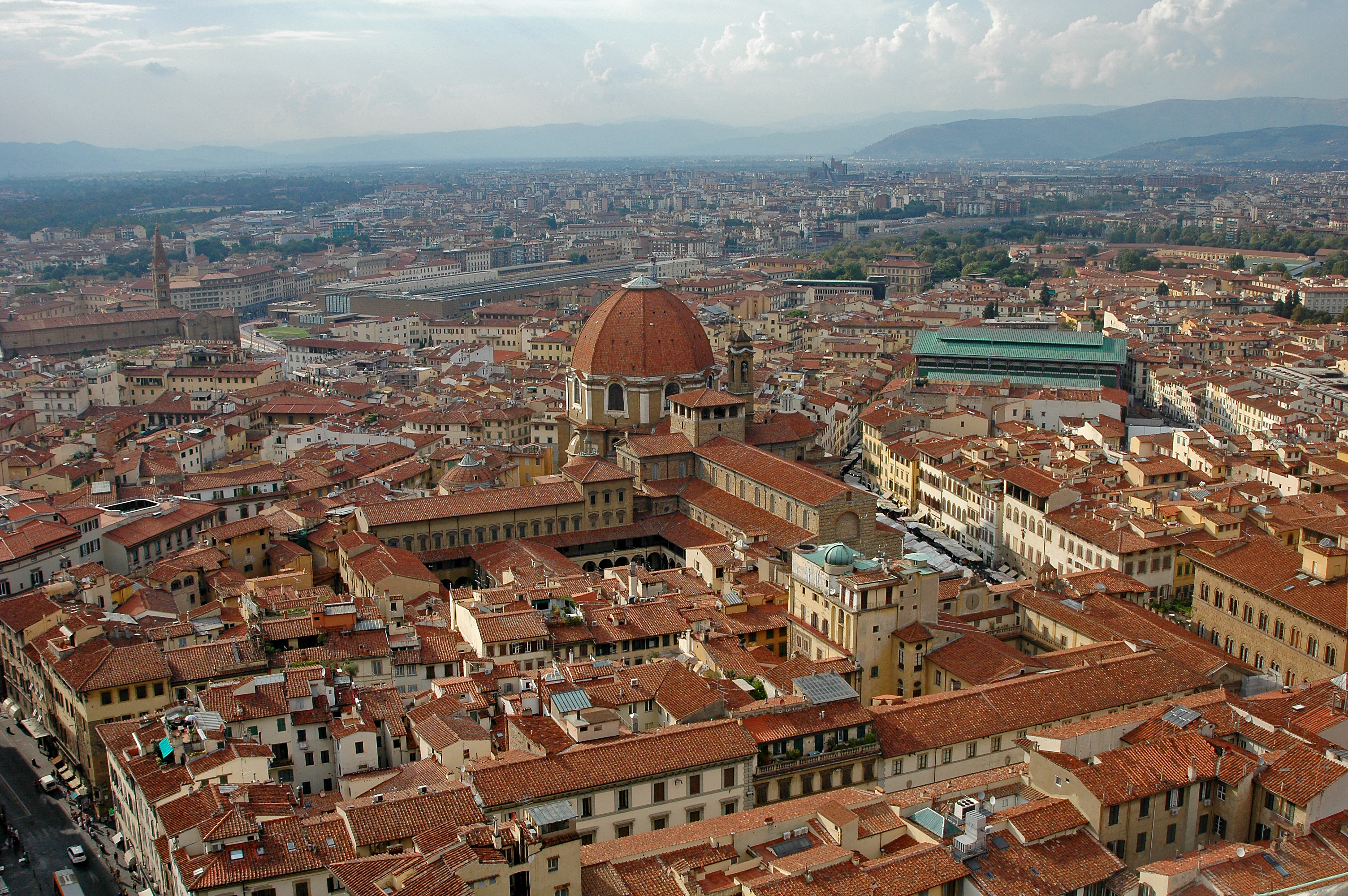 Cityscapes of Florence